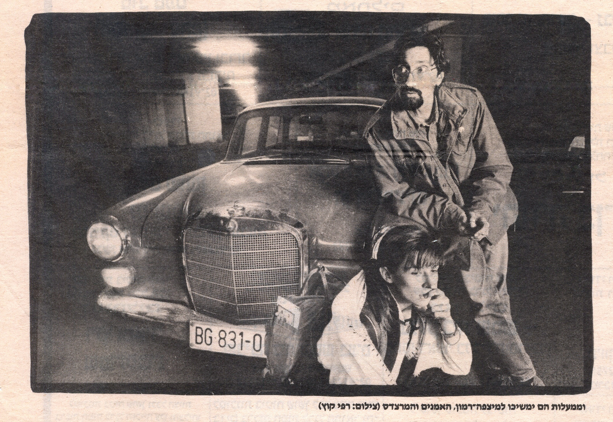 Iskra and Sasha in Jerusalem, 1991